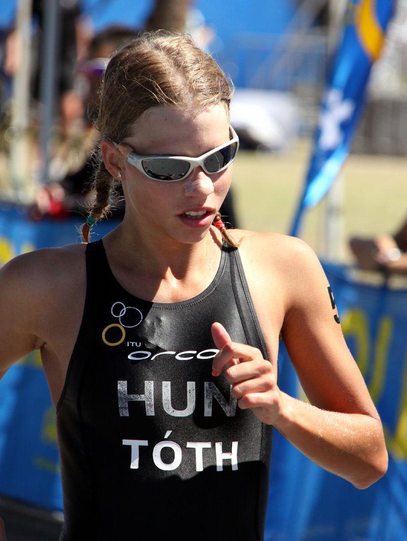 Zsófia Tóth Triathlon World Championship Series Gold Coast